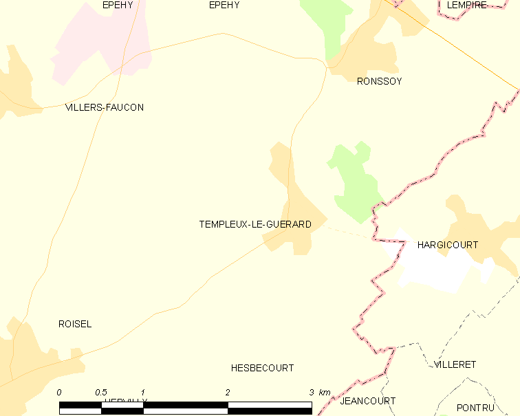 Map of French municipality Templeux-le-Guérard